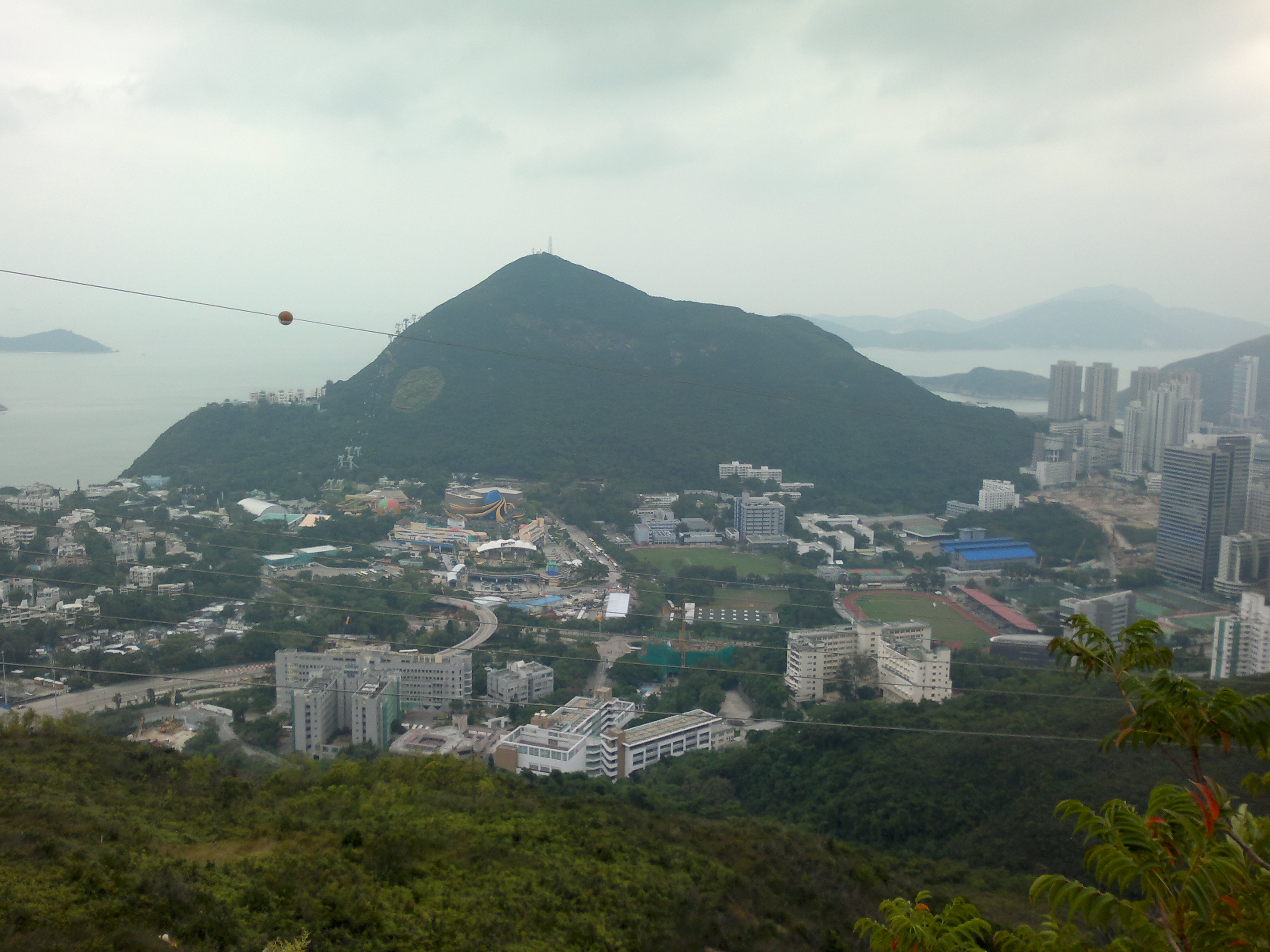 Nam Long Shan viewed from Middle Gap